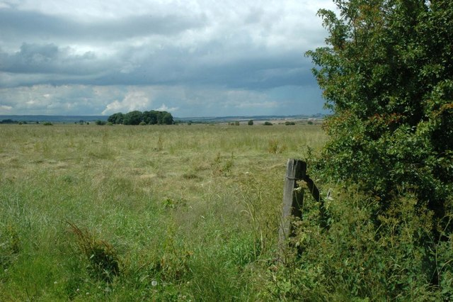 Flixton Carr looking north-east, by Flixton, North Yorkshire